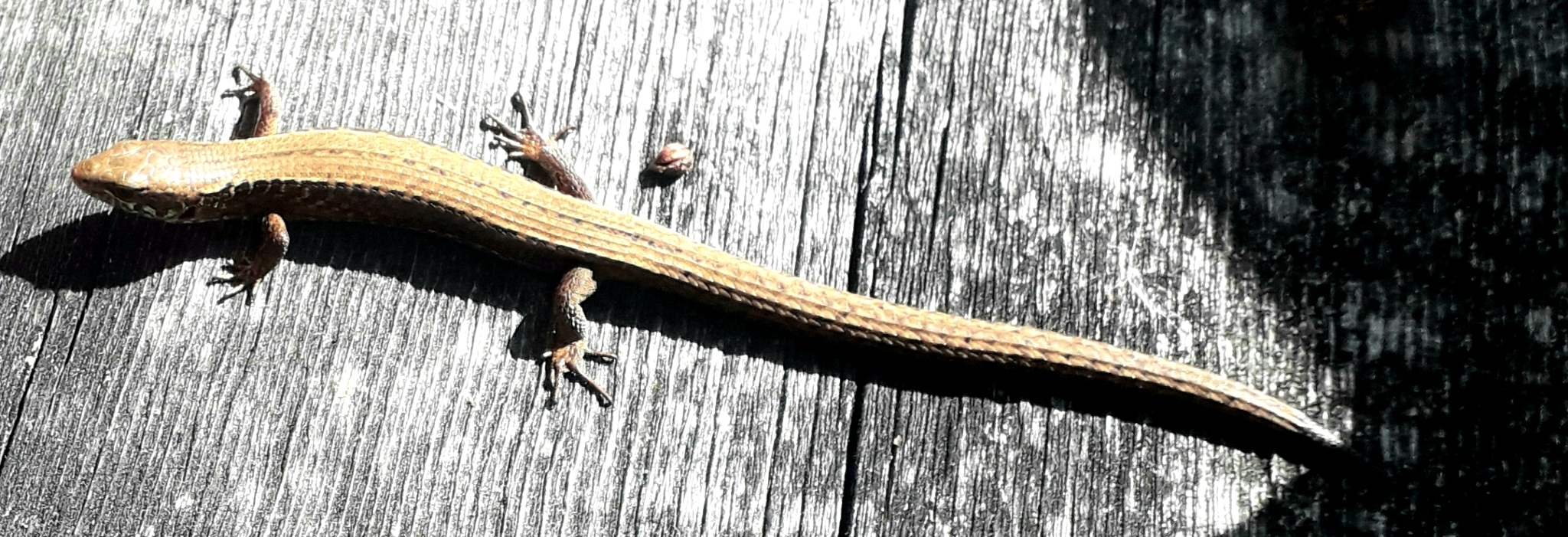 Mesaspis moreletii - Morelet's Alligator Lizard. Species of lizard.